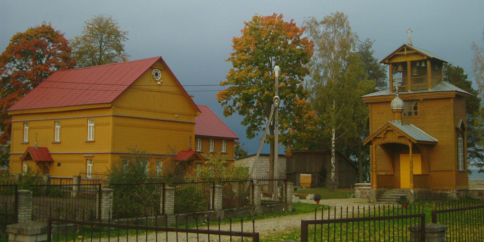 Oldbelievers church and monastery in Raja, Estonia, October 2006 Date = created 1. Oct. 2006 Author = A. Fiedler (a.fiedler)